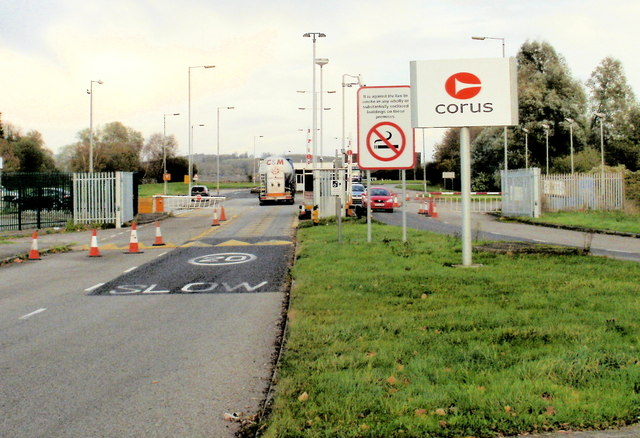 Entrance to Corus Llanwern This entrance to Corus Steelworks is located at the end of Queensway Meadows, close to the southeast edge of Newport Retail Park. Not to be confused with the public road Queensway in the centre of Newport, the road seen here is a private road variously spelt Queens Way, Queen's Way or Queensway.